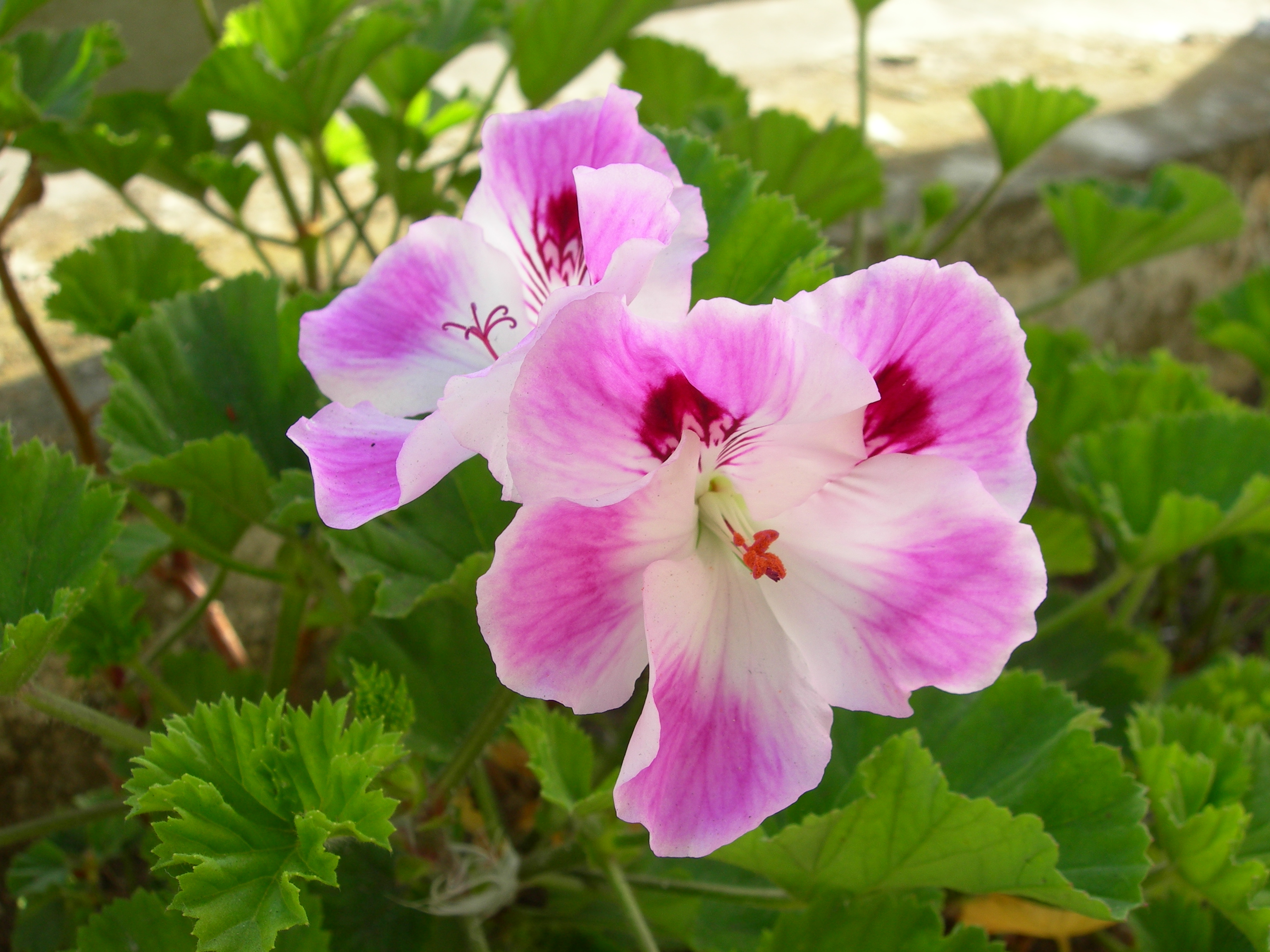 Pelargonium x domesticum cultivated at Alcatraz, San Francisco Bay Area, California, USA. NPS photo, no copyright.